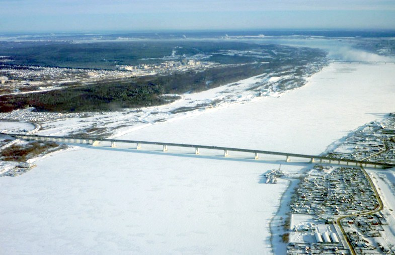 Krasavinskiy bridge over the river Kama in winter